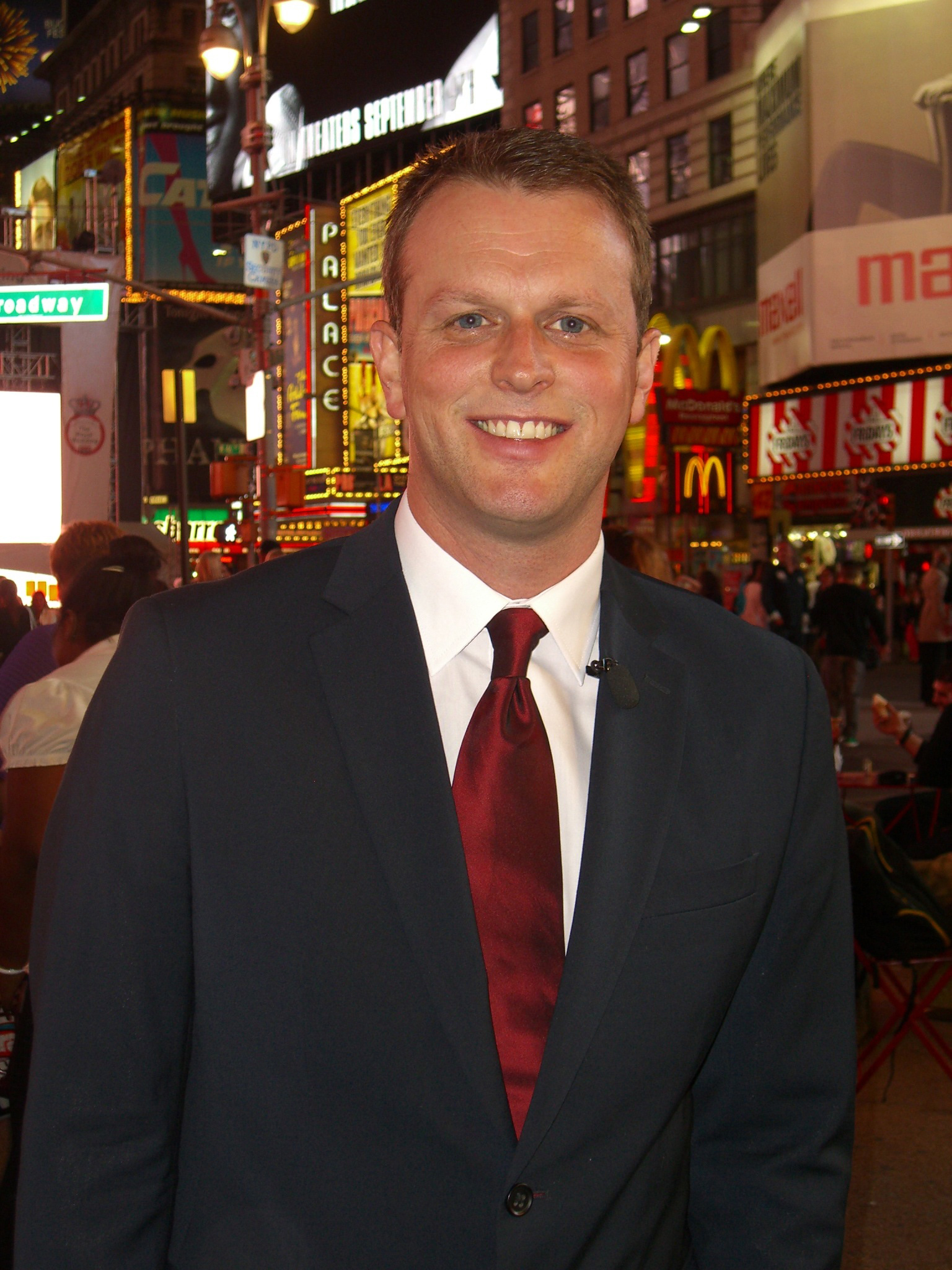 GMTV correspondent Nick Dixon reporting on American reaction to the wedding of Prince William and Catherine Middleton in Times Square on the evening of April 28, 2011, hours before the wedding. This photo was created by Luigi Novi. It is not in the public domain, and use of this file outside of the licensing terms is a copyright violation.